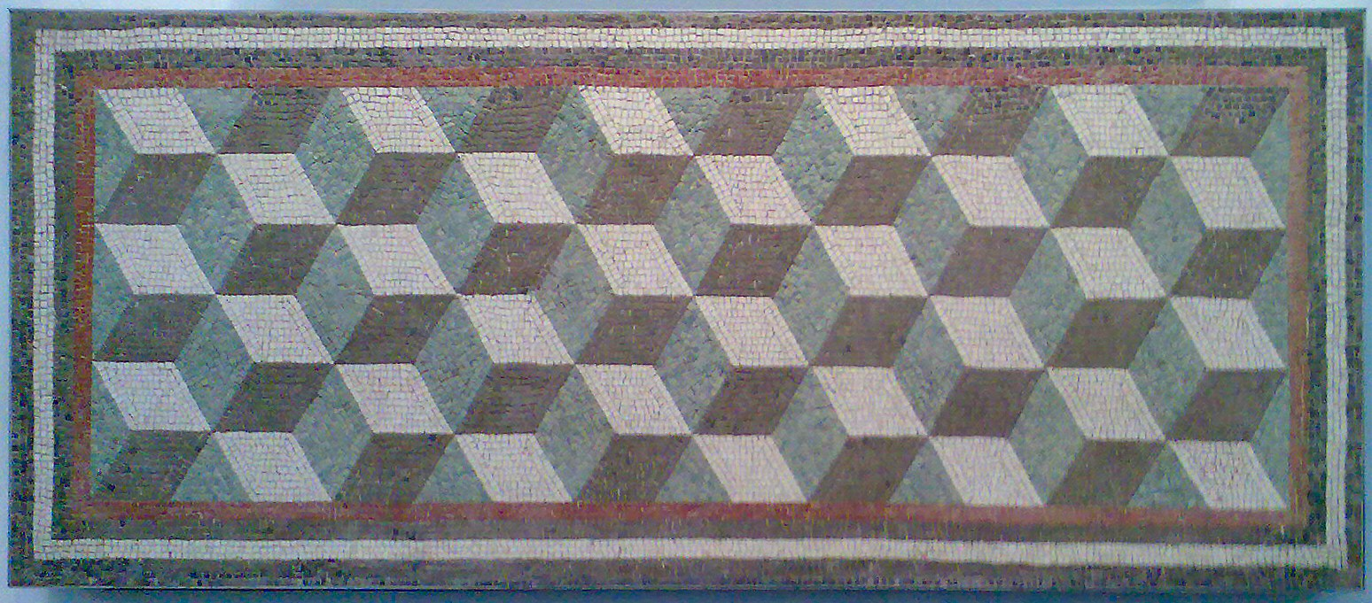 An ancient roman geometric mosaic from the "Palazzo Massimo alle Terme" National Roman Museum of Rome, Italy. The rhombille tiling texture induces a Necker-cube-like optical illusion.